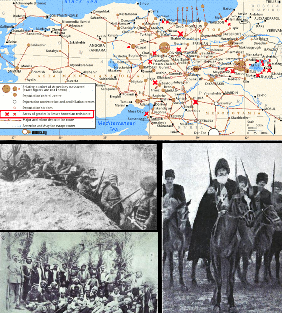 Montage for the Armenian resistance (1914–1918) in Wikipedia